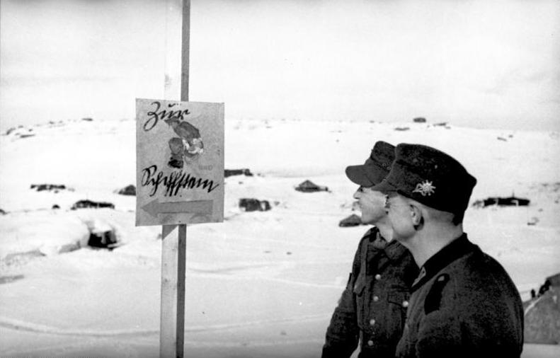 Information added by Wikimedia users.